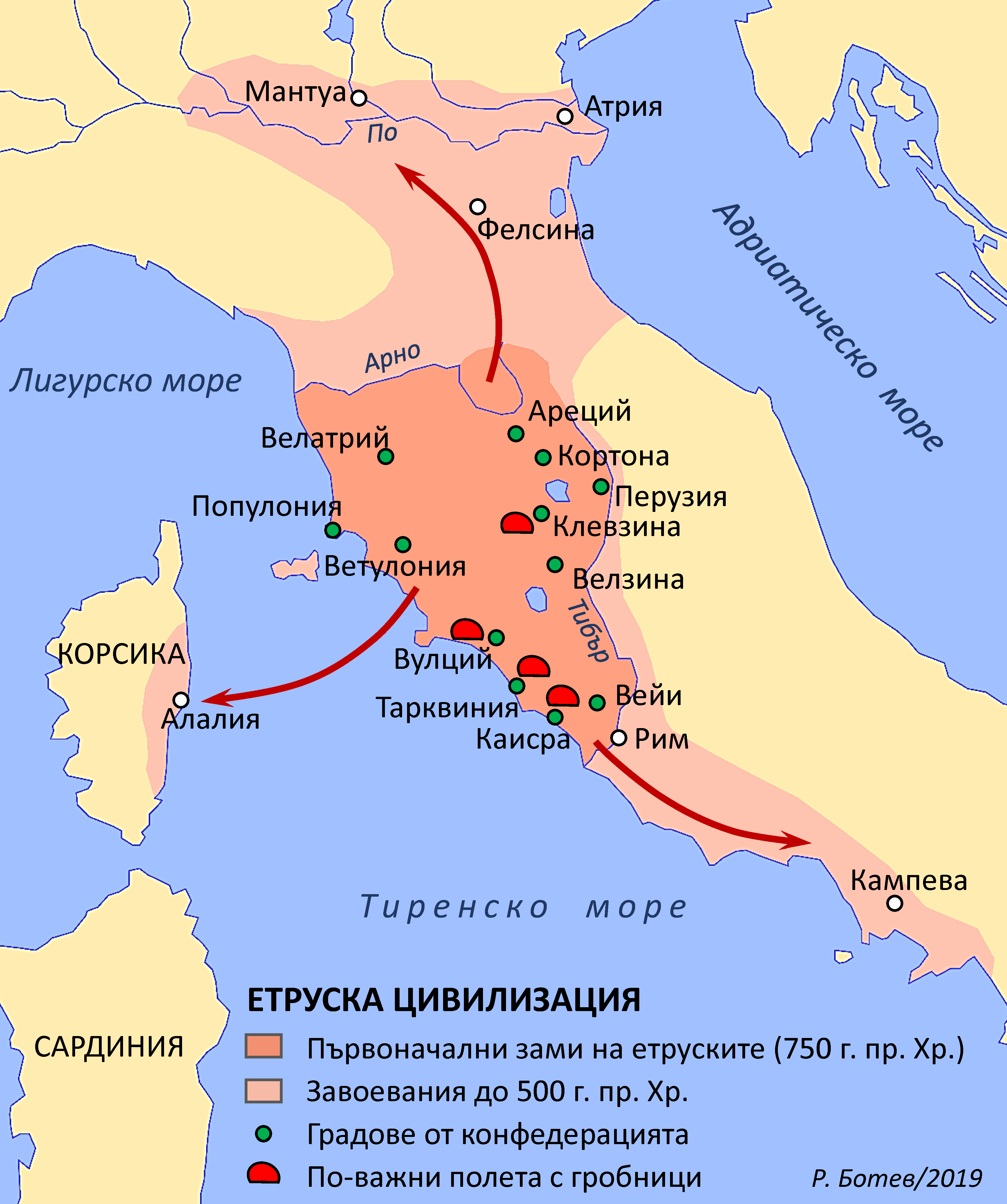 Etruscan civilization